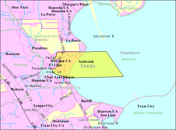 Map of Seabrook